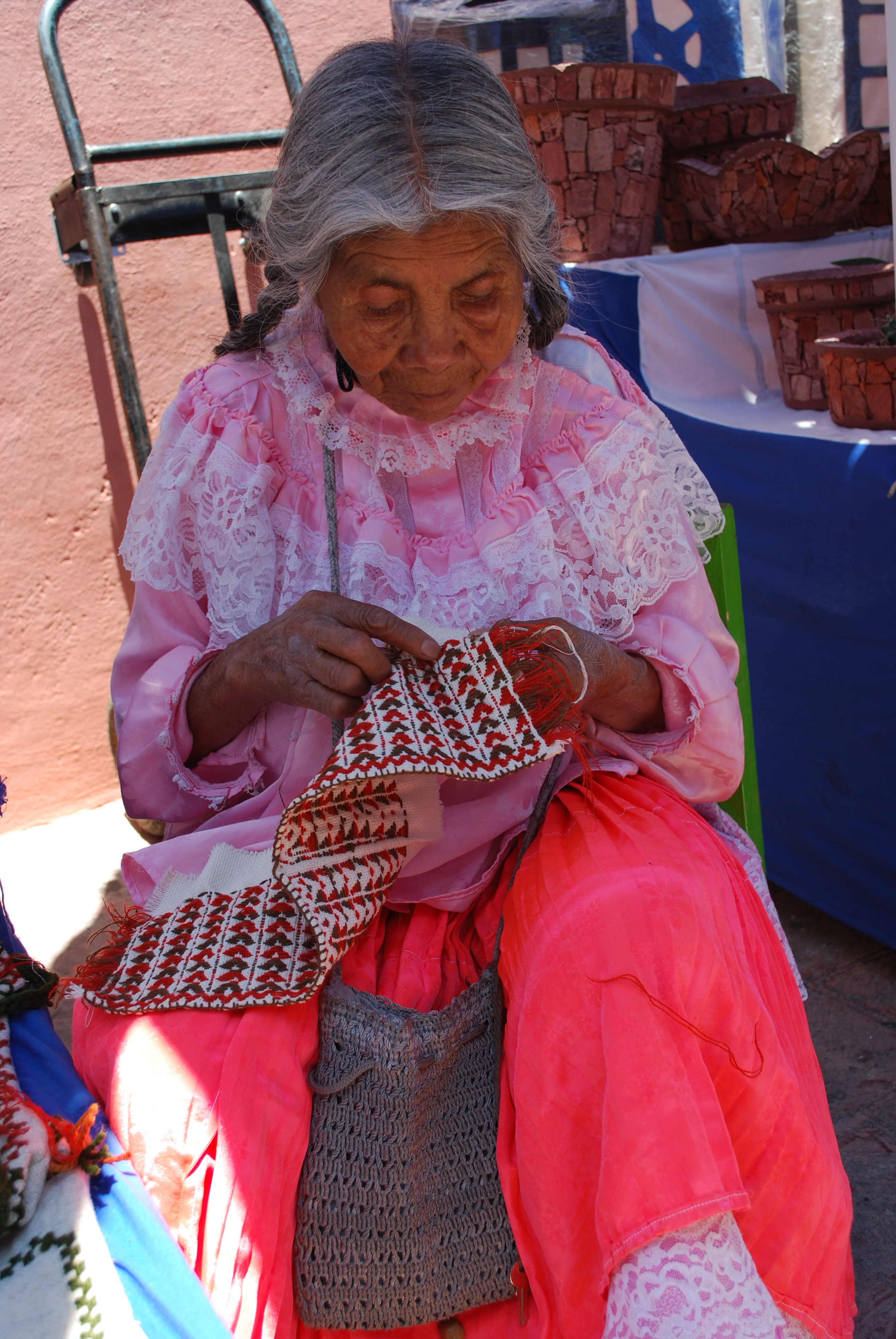 Otomi women embroidering at her stand in Tequisquiapan, Queretaro, Mexico This photo has been taken in the country: Mexico